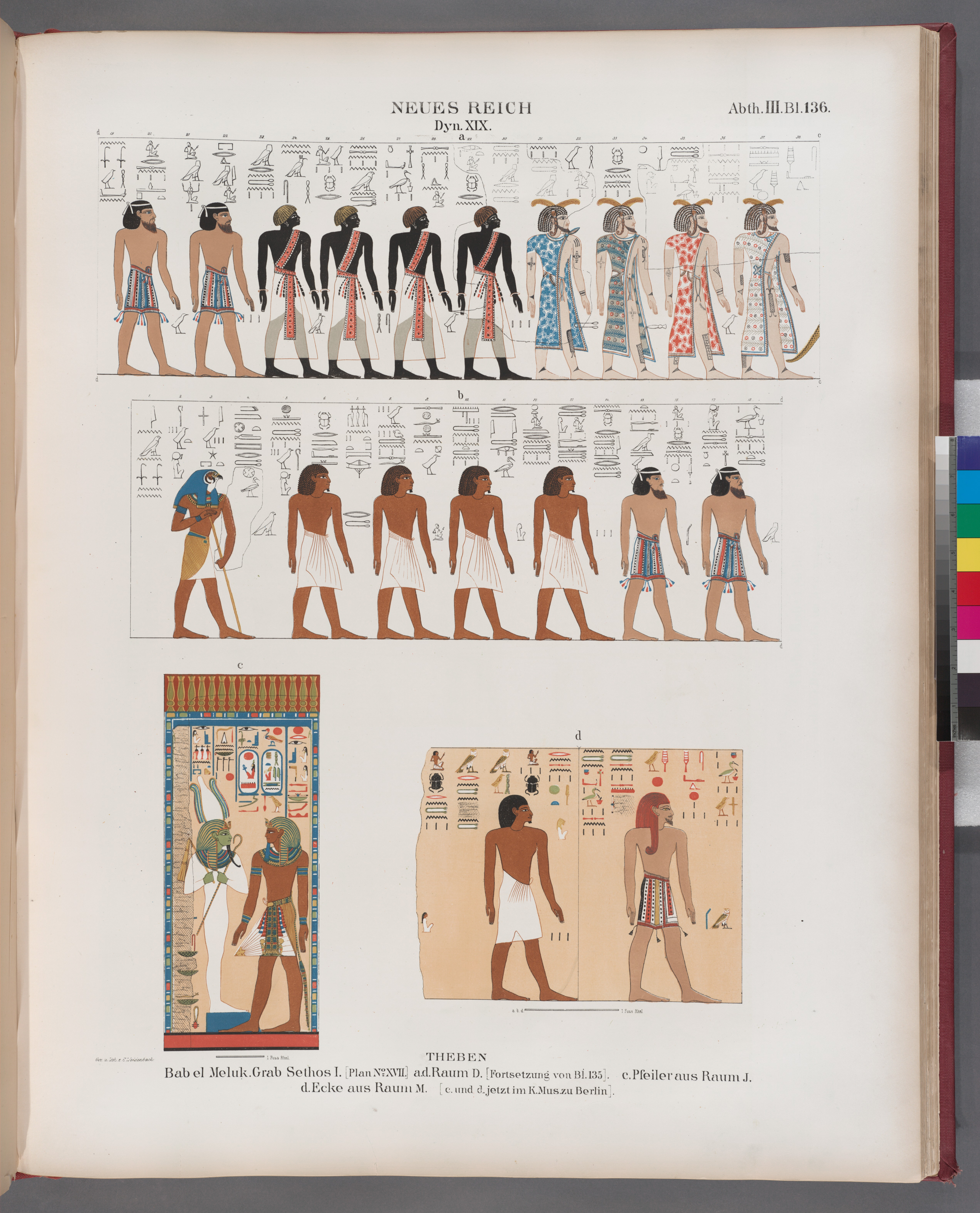 Neues Reich. Dynastie XIX. Theben [Thebes]. Bab el Meluk [Bîbân el-Mulûk]. Grab Sethos I. [Plan No. XVII] a. d. Raum D. [Forsetzung von Bl. 135]; c. Pfeiler aus Raum J ; d. Ecke aus Raum M. [c. und d. jetzt im K. Mus. zu Berlin]